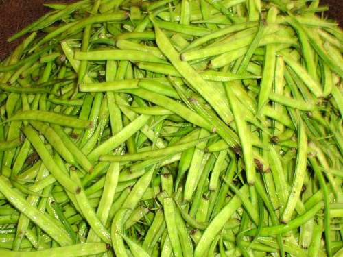 cluster bean,guar plant,Cyamopsis psoralioides;Cyamopsis tetragonolobus,Tamil Nadu